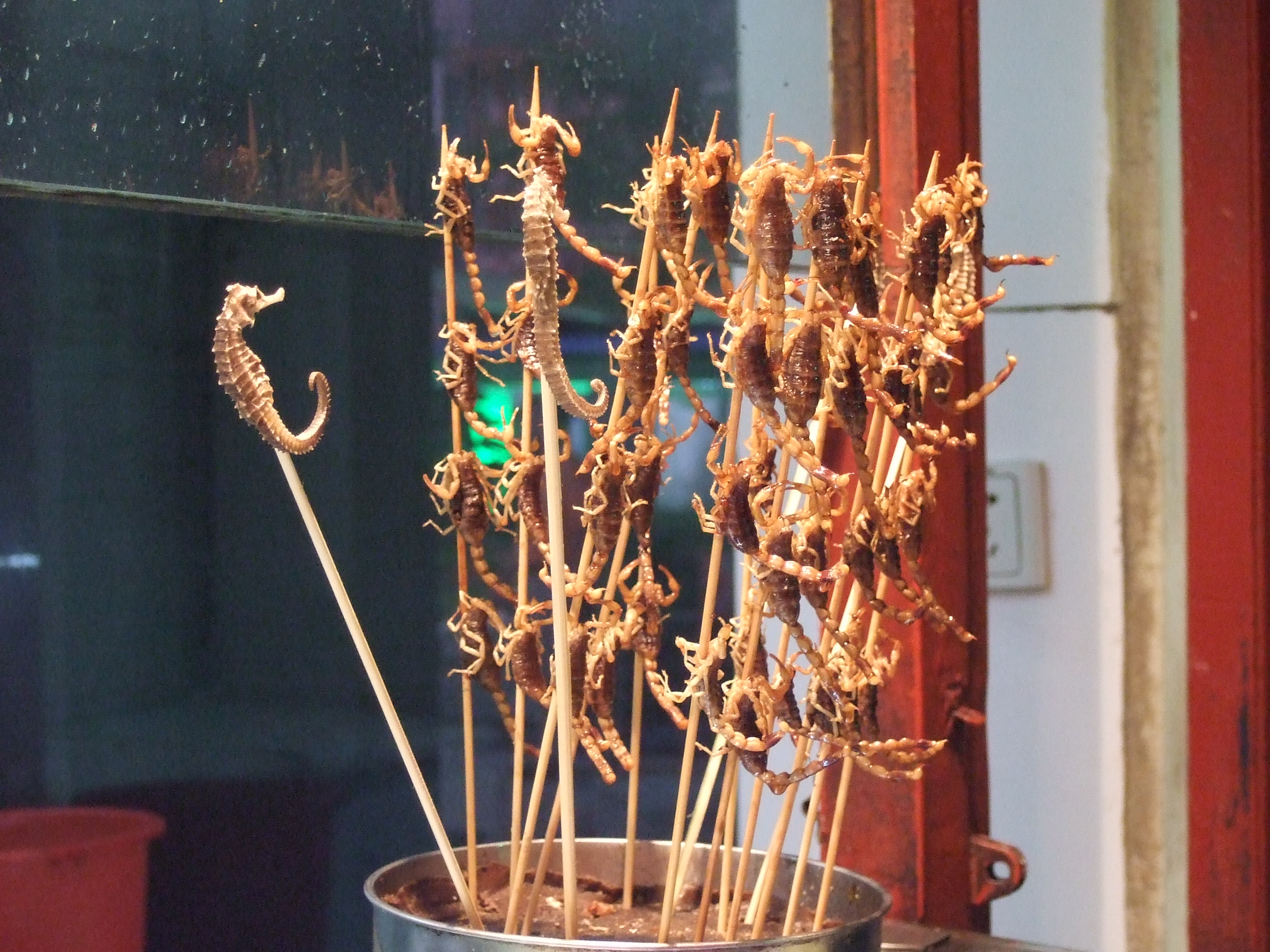 Seahorses and scorpions on a stick!